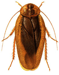 Pseudophoraspis fruhstorferi Reference: R. Shelford. 1910. Orthoptera. Fam. Blattidae. Subfam. Epilamprinae. Genera Insectorum de P. Wytsman 101:1-29